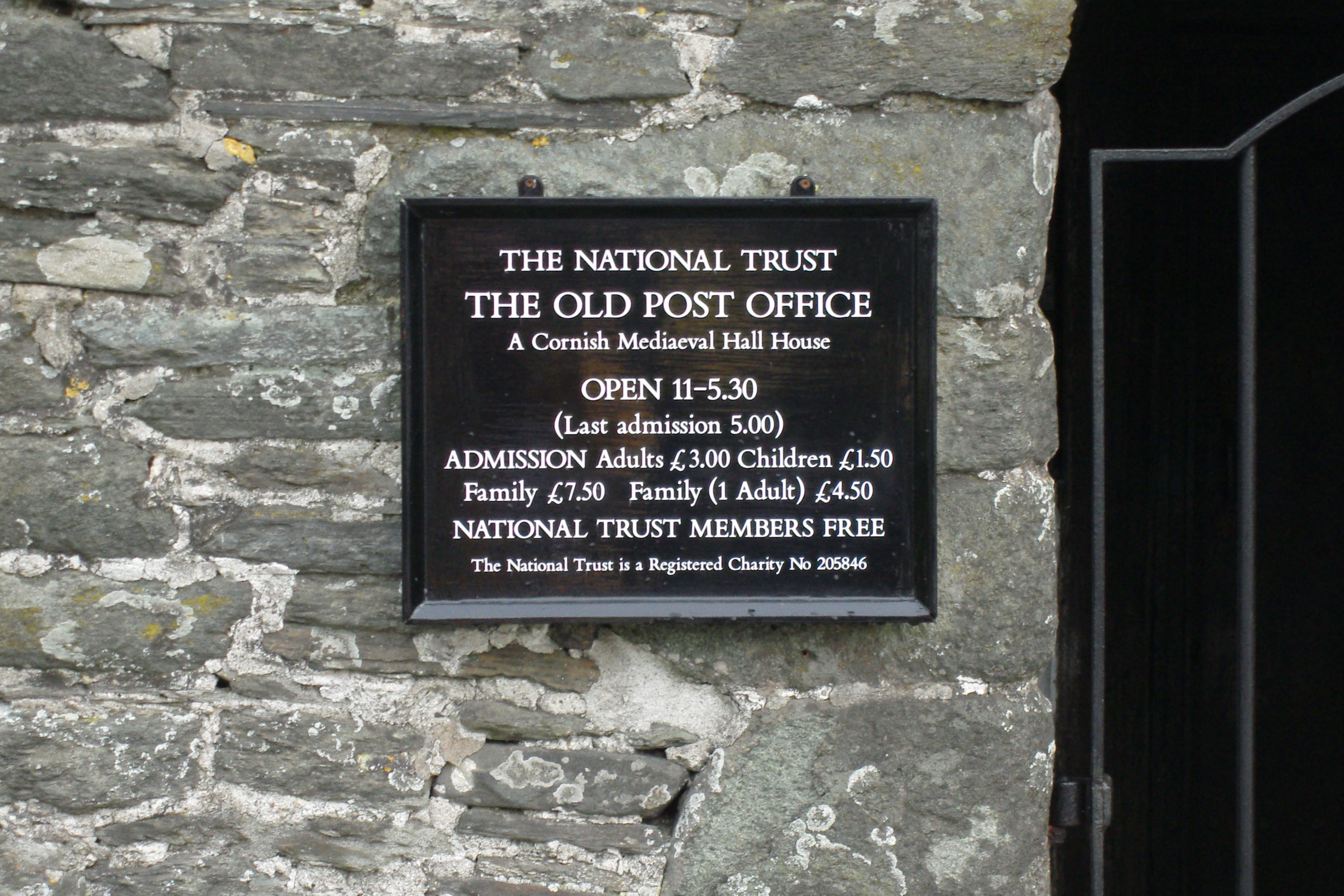 Sign of the Tintagel Old Post Office